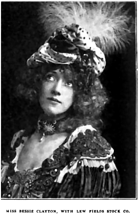 Dancer Bessie Clayton